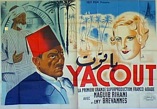 Poster to the Egyptian Film "Yacout" filmed in France in 1934.